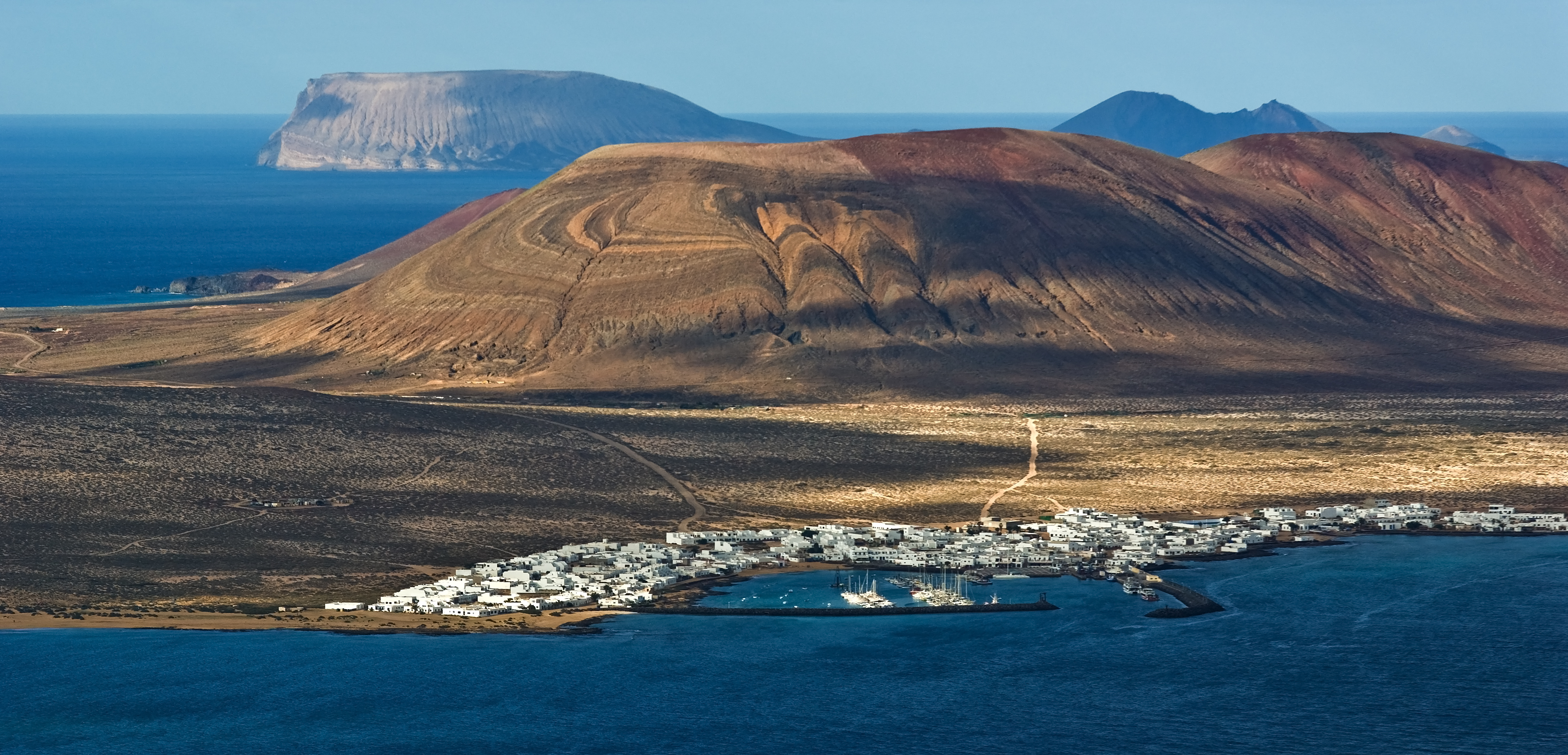 View of La Graciosa and Alegranza from Lanzarote, Canary Islands, Spain.